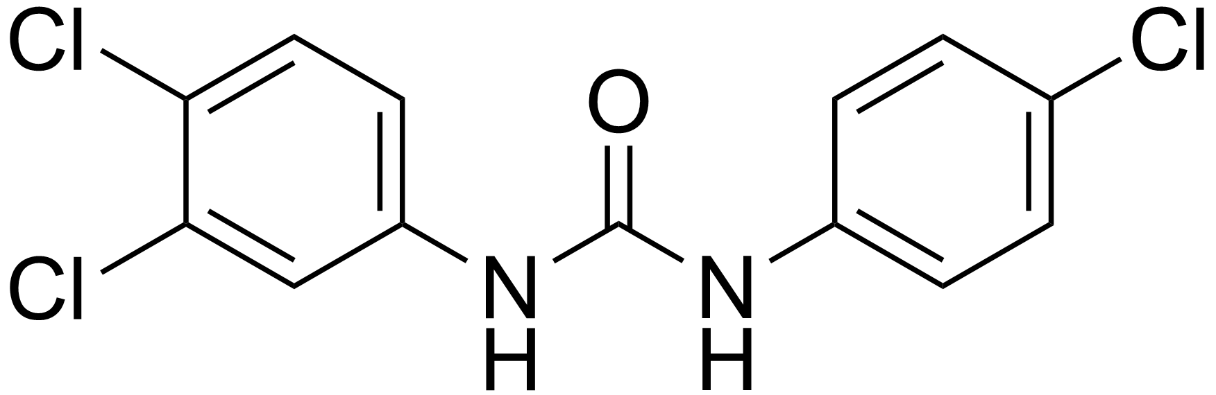 chemical structure of triclocarban